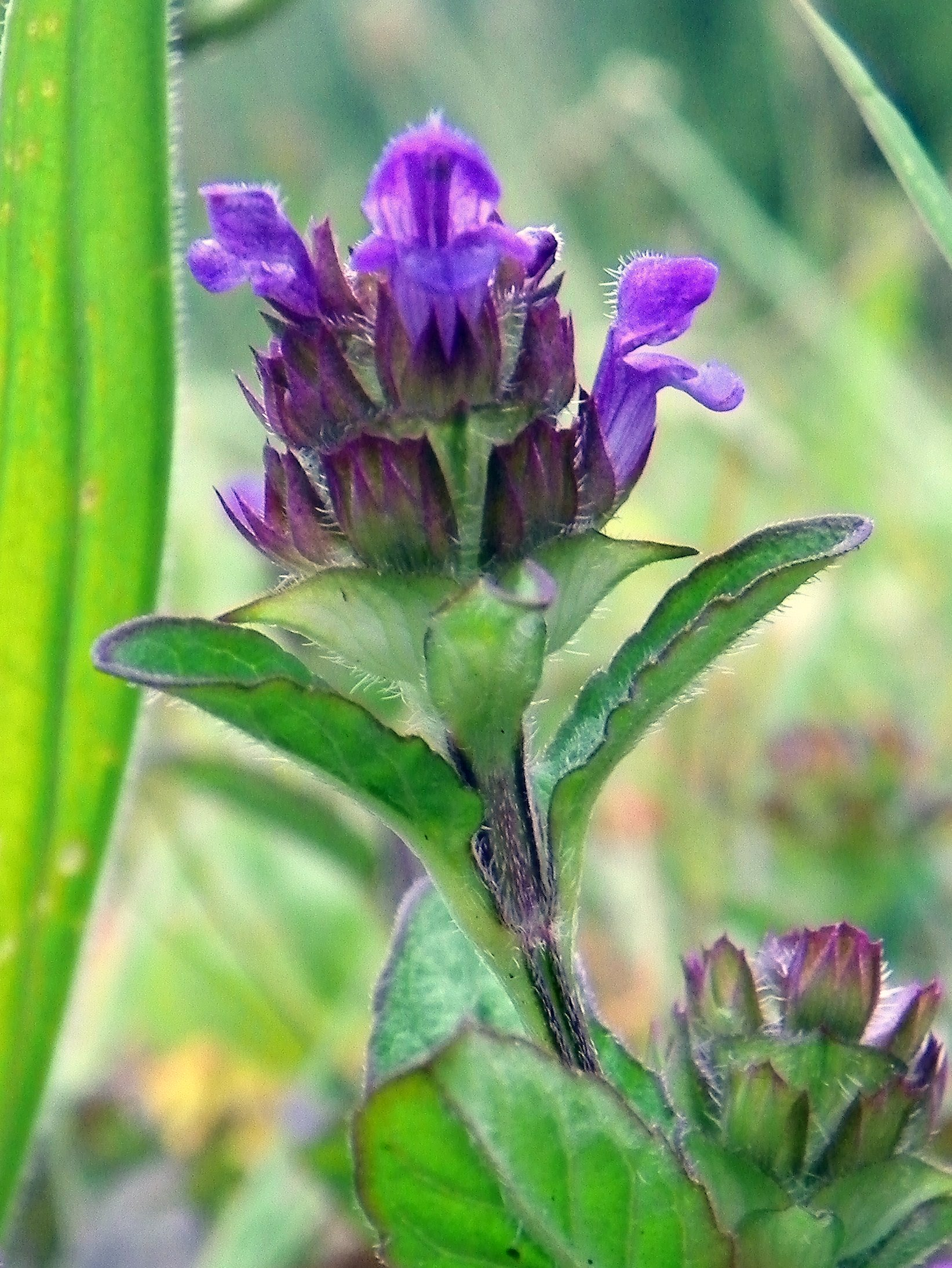 Selfheal (Prunella vulgaris), Great Ashby District Park, Stevenage, 6 June 2011.